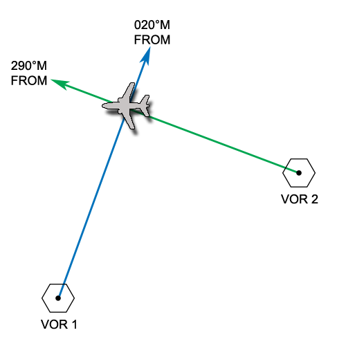 Orientation using two VORs. No DME.